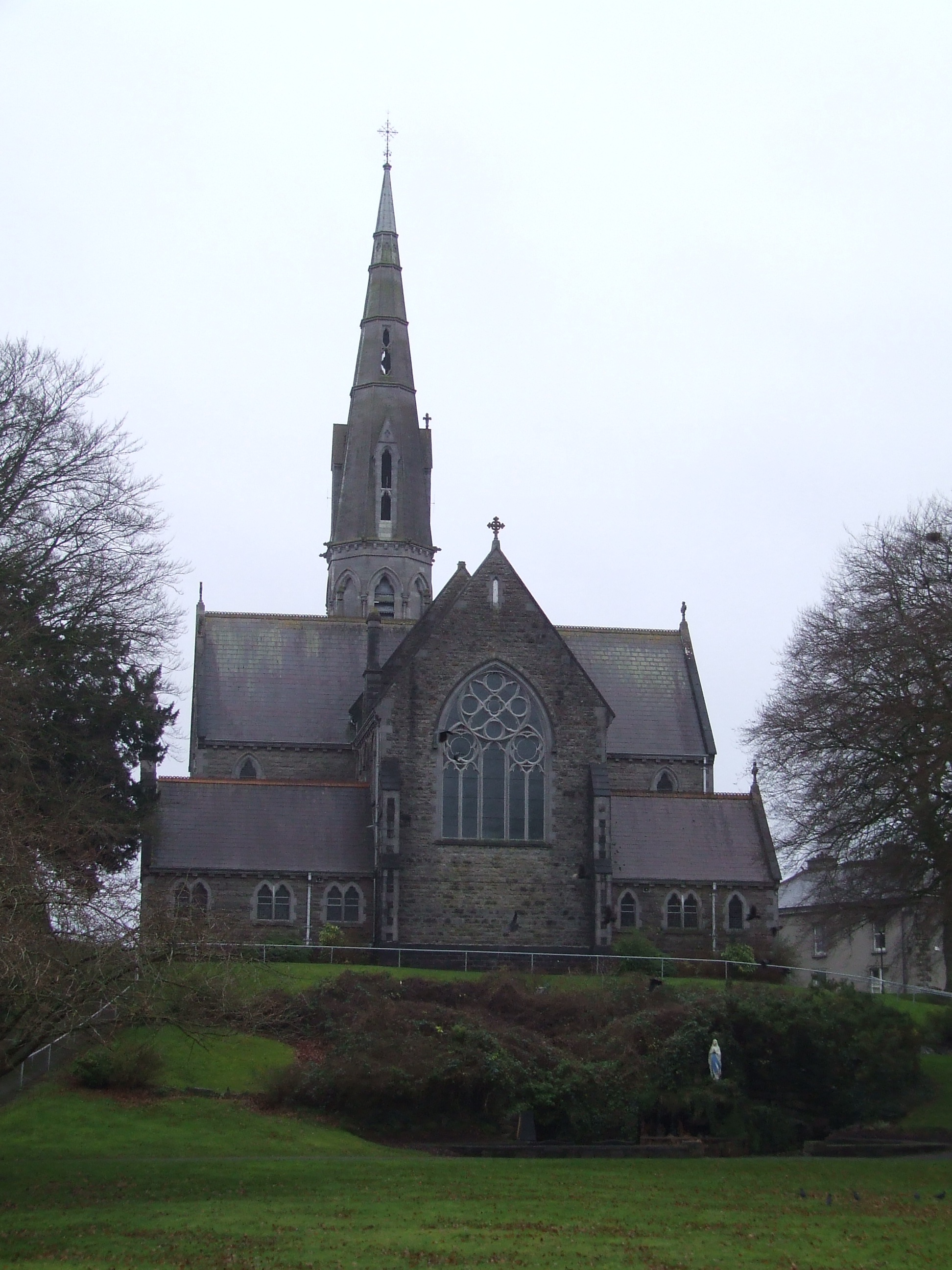 St Patrick's church (Roman Catholic), Trim, County Meath. Located just beyond the southern curtain wall of Trim Casle. It is directly south of the church of the same name in the Church of Ireland. It is built on a north/south axis unlike the CoI church which is on the traditional east/west axis.